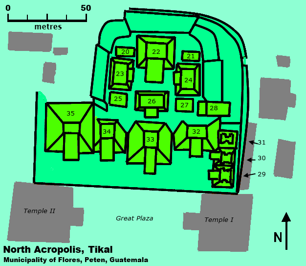 Map of the North Acropolis architectural complex at Tikal, Guatemala. Sources: Coe, William R. (1967, 1988). Tikal: Guía de las Antiguas Ruinas Mayas [Tikal: Guide to the Ancient Maya Ruins]. Guatemala: Piedra Santa. ISBN 84-8377-246-9. OCLC 21460472. Page 42. Martin, Simon; and Nikolai Grube (2000). Chronicle of the Maya Kings and Queens: Deciphering the Dynasties of the Ancient Maya. London and New York: Thames & Hudson. ISBN 0-500-05103-8. OCLC 47358325. Page 43. Coe, William R. (April 1962). "A Summary of Excavation and Research at Tikal, Guatemala: 1956-61". American Antiquity (Washington, D. C., USA: Society for American Archaeology) 27 (4): 479–507. ISSN 0002-7316. JSTOR 277674. OCLC 4892259320. Page 481.